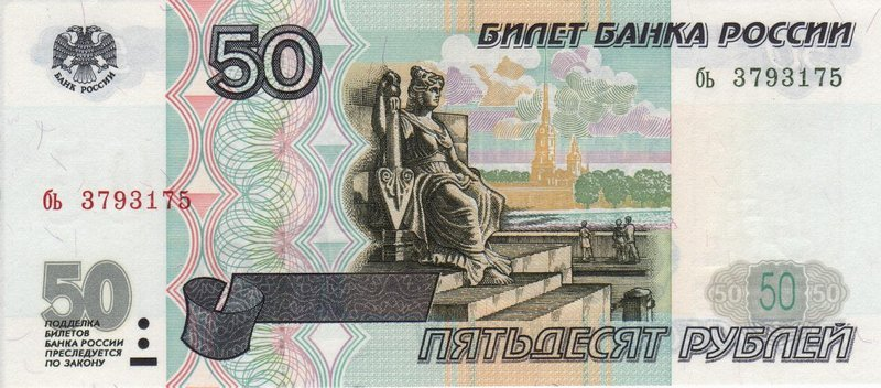 Russian banknote. 50 rubles. Version of 1997 year. Front